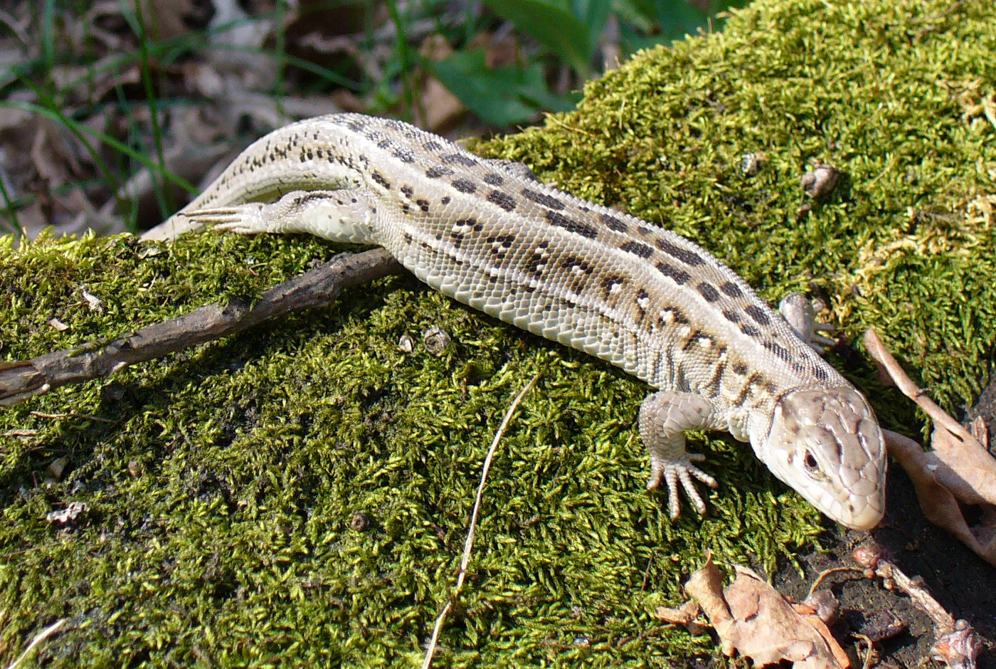 Sand Lizard (Lacerta agilis)